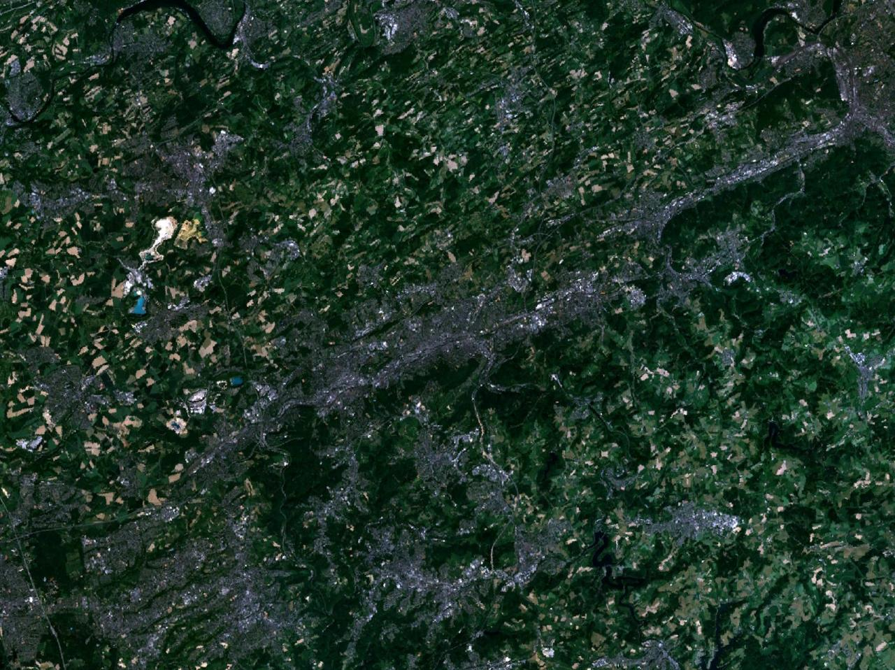 Wuppertal, Germany. Satellite picture.